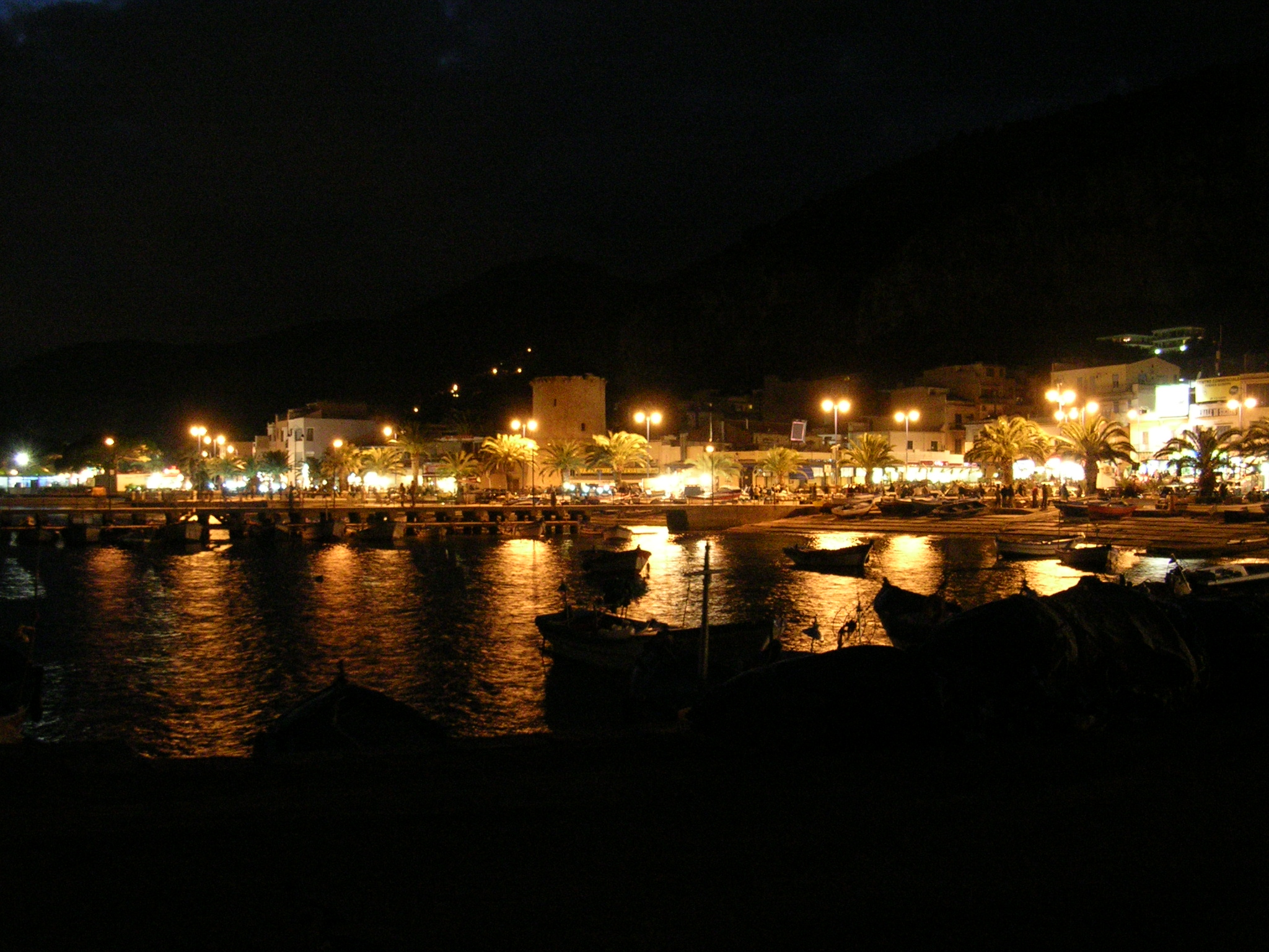 Night landscape - Mondello (Palermo) - Sicily - Italy